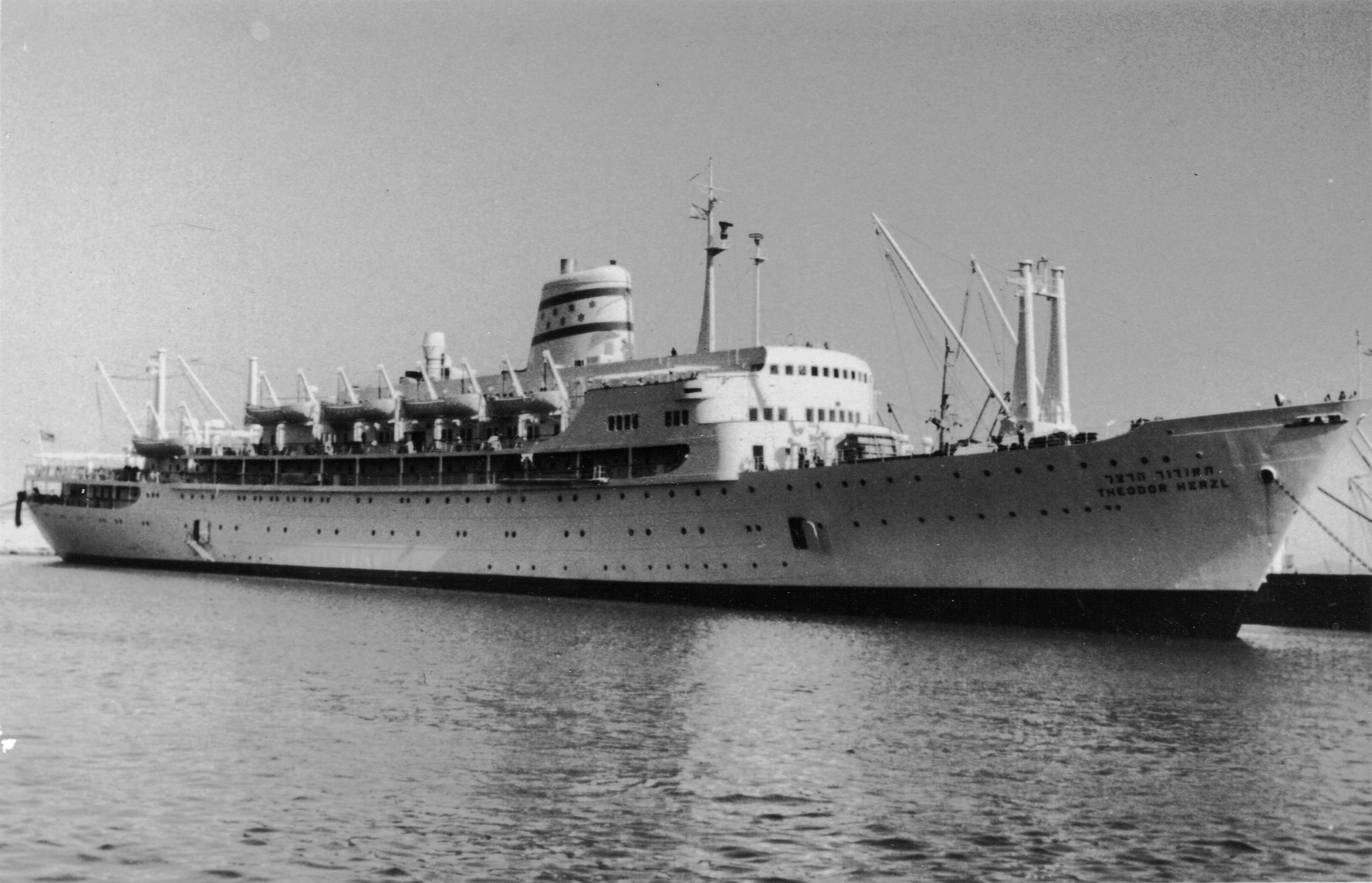 Third Israel passenger ship Theodor Herzl, ZIM Shipping Co.